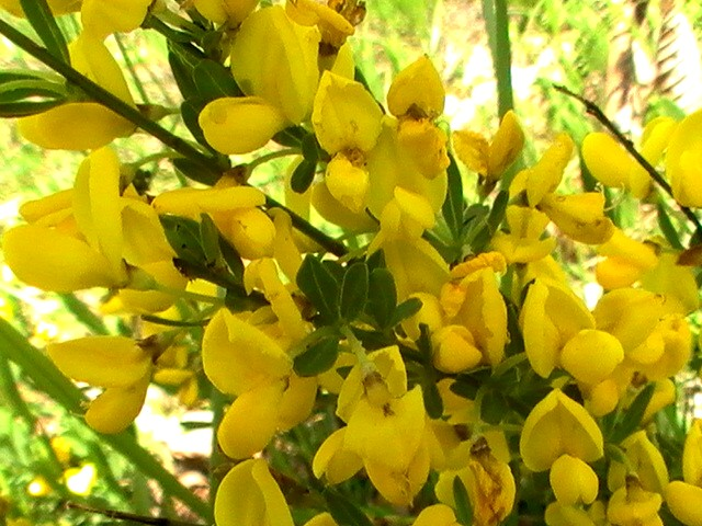 Cytisus pseudoprocumbes - Località: Le Laste, Limana (BL), 661 m s.l.m.